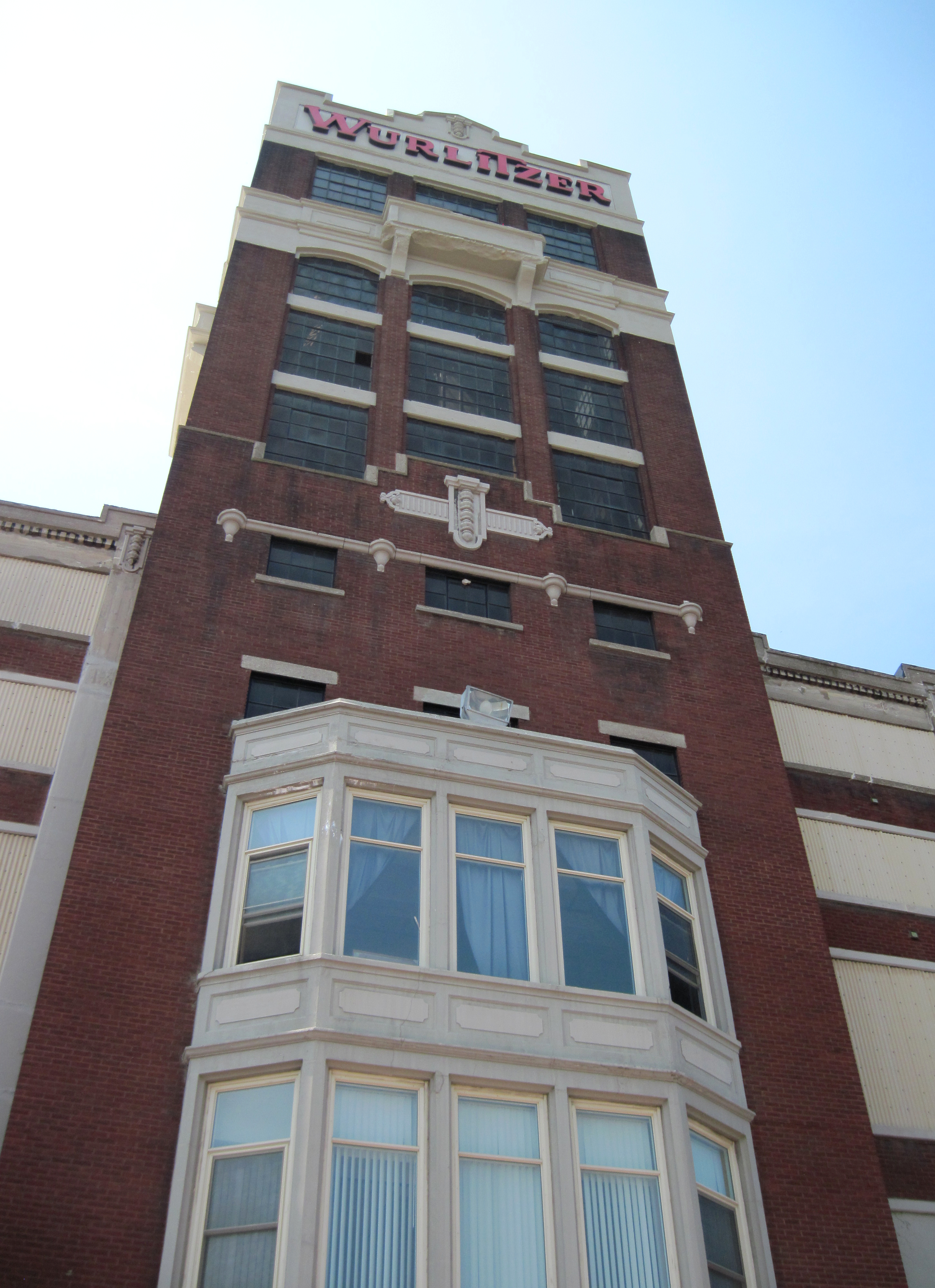 Front tower of the North Tonawanda Barrel Organ Factory (also known as the Wurlitzer Building) in North Tonawanda, New York. The 750,000 square foot (70,000 m2) complex was constructed between 1893 and the 1950s; the distinctive front tower was built by 1924 to house a massive water tank in case of a fire. The building now houses over 30 small businesses. Having been exposed to a number of Wurlitzer instruments, I was very happy to be able to see this building while visiting a friend.